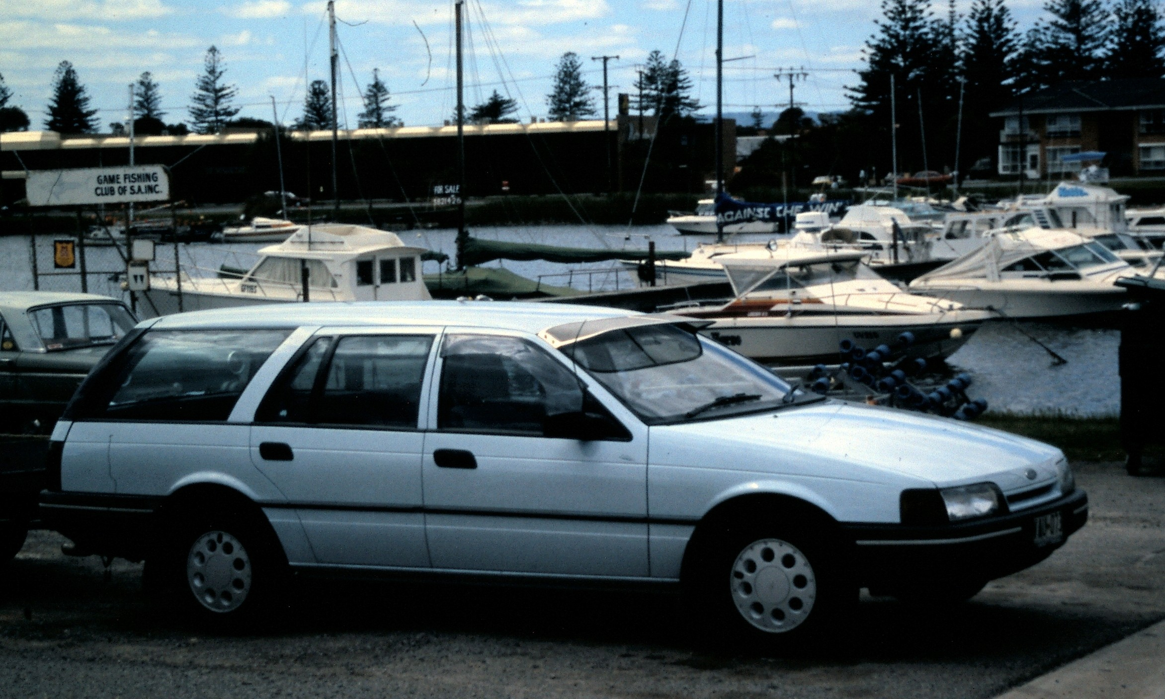 1989–1990 Ford Falcon (EA II) GL station wagon, photographed in South Australia, Australia.